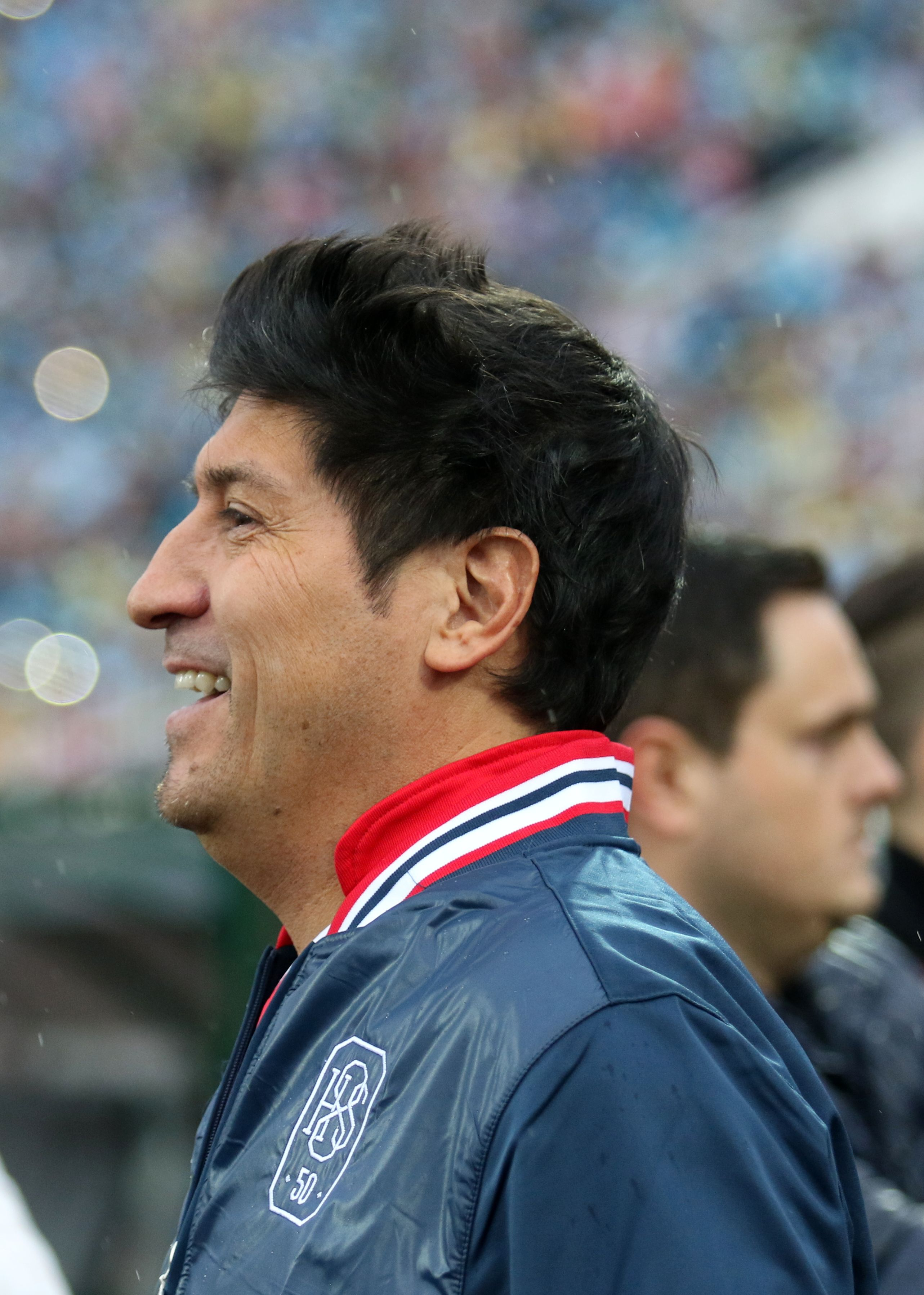 Iván Luis Zamorano Zamora (American